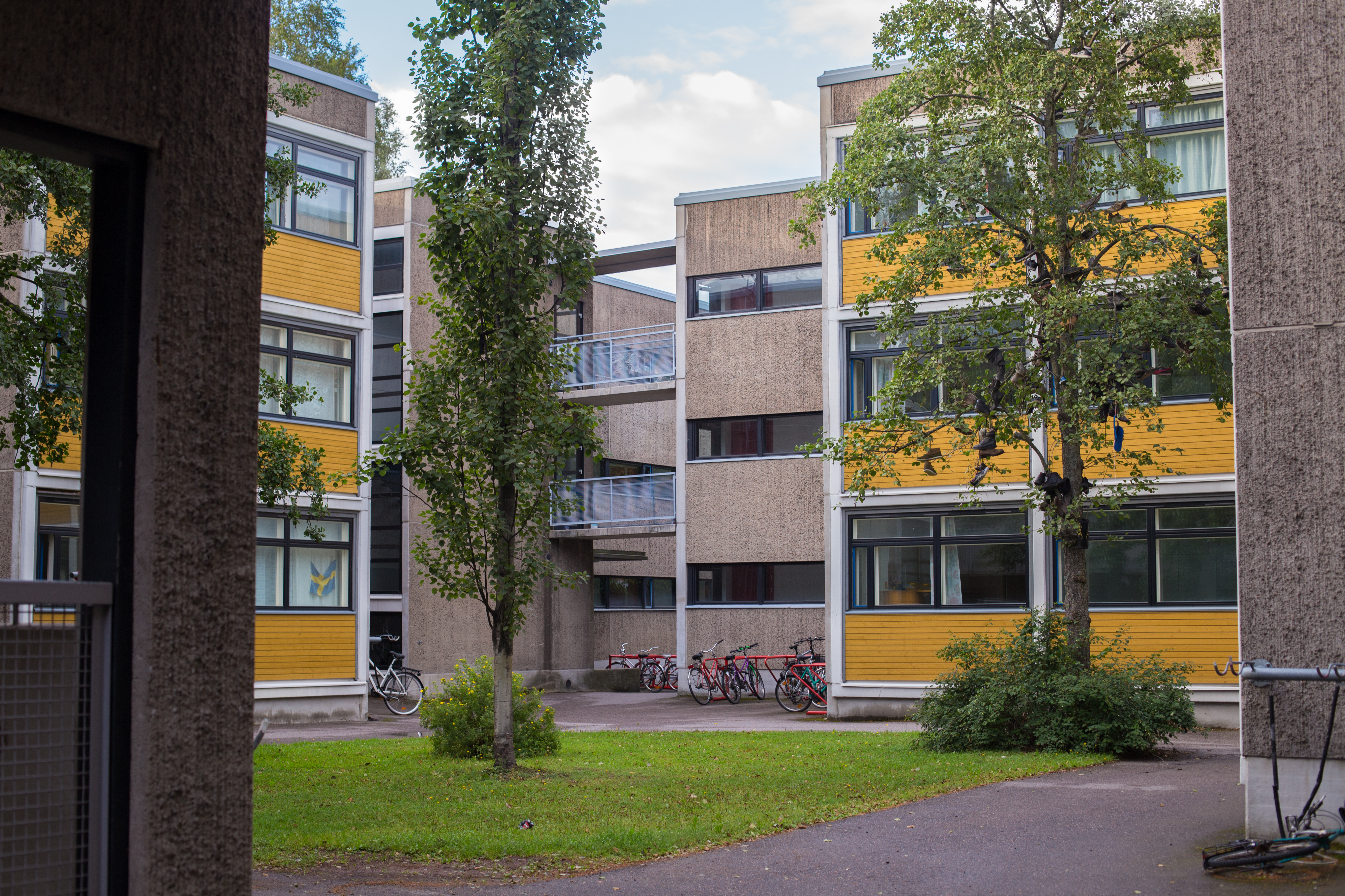 Turku Student Village, a yard in western part